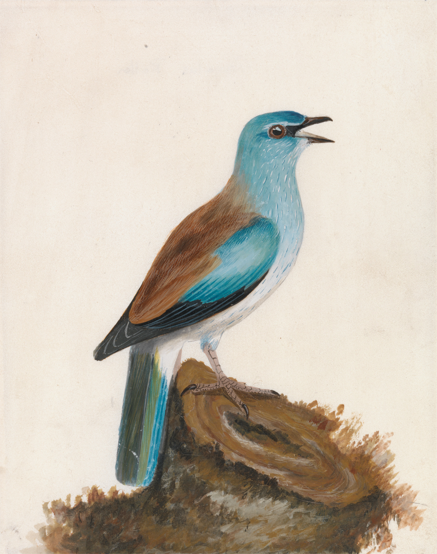 "Roller: Garrulous Roller," by William Lewin, before 1790. Watercolour and gouache over graphite with gum on vellum with pen and black ink line border. 8 9/16 inches x 6 9/16 inches (21.7 cm x 16.7 cm). Courtesy of the Paul Mellon Collection, Yale Center for British Art, Yale University, New Haven, Connecticut.